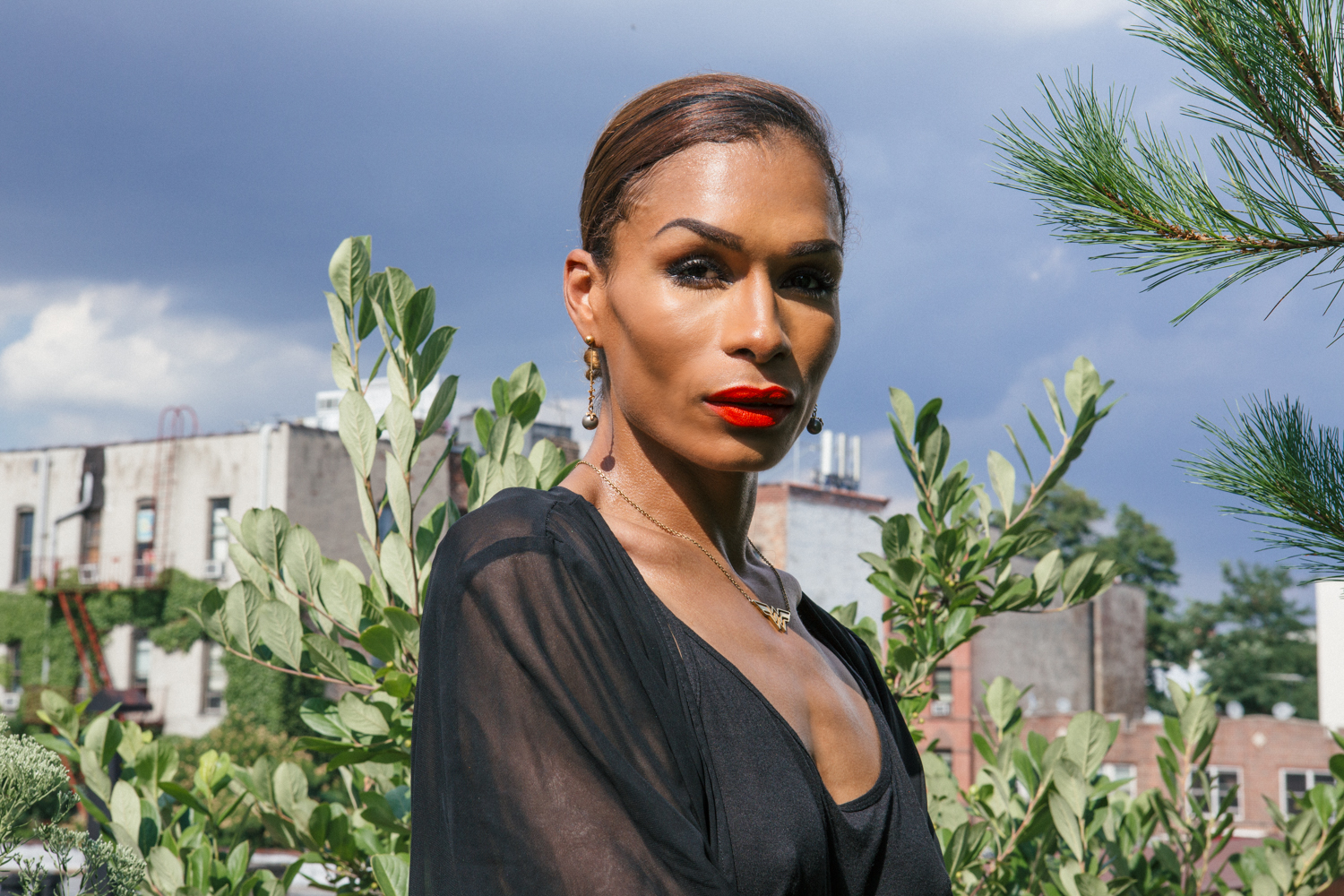 Leiomy Mizrahi photographed by Ebru Yildiz for The Creative Independent in the offices of Kickstarter on August 11 2016.